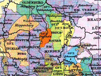 Counties of Diepholz (orange), Bruchhausen (light green), and Hoya (yellow) around 1400